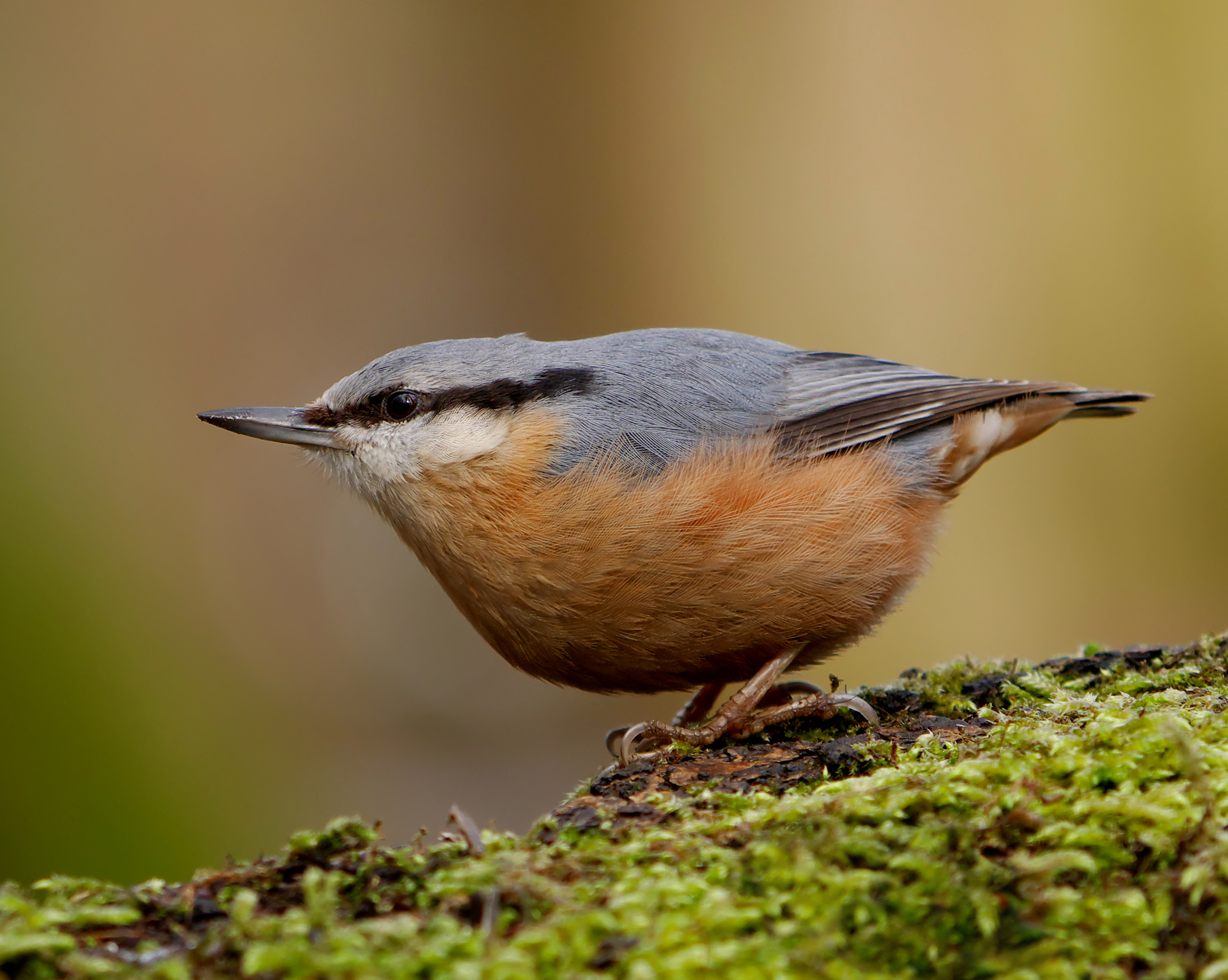 Panasonic GX7 + Panasonic Lumix G Vario 100-300, O.I.S Nice light conditions today despite frequent rainshowers